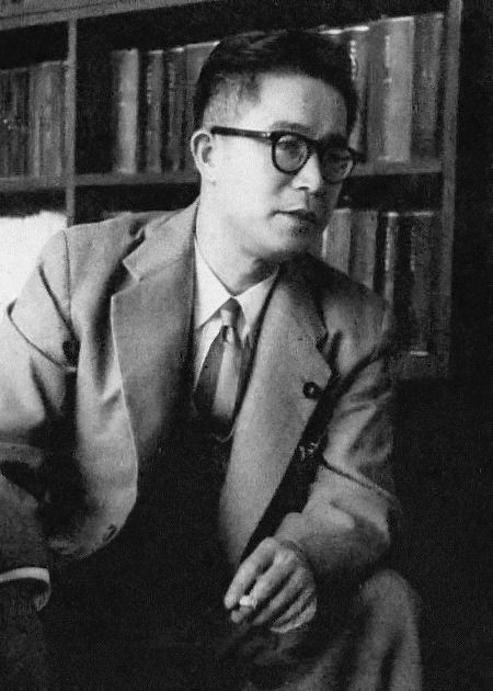 Sadayoshi Hatta